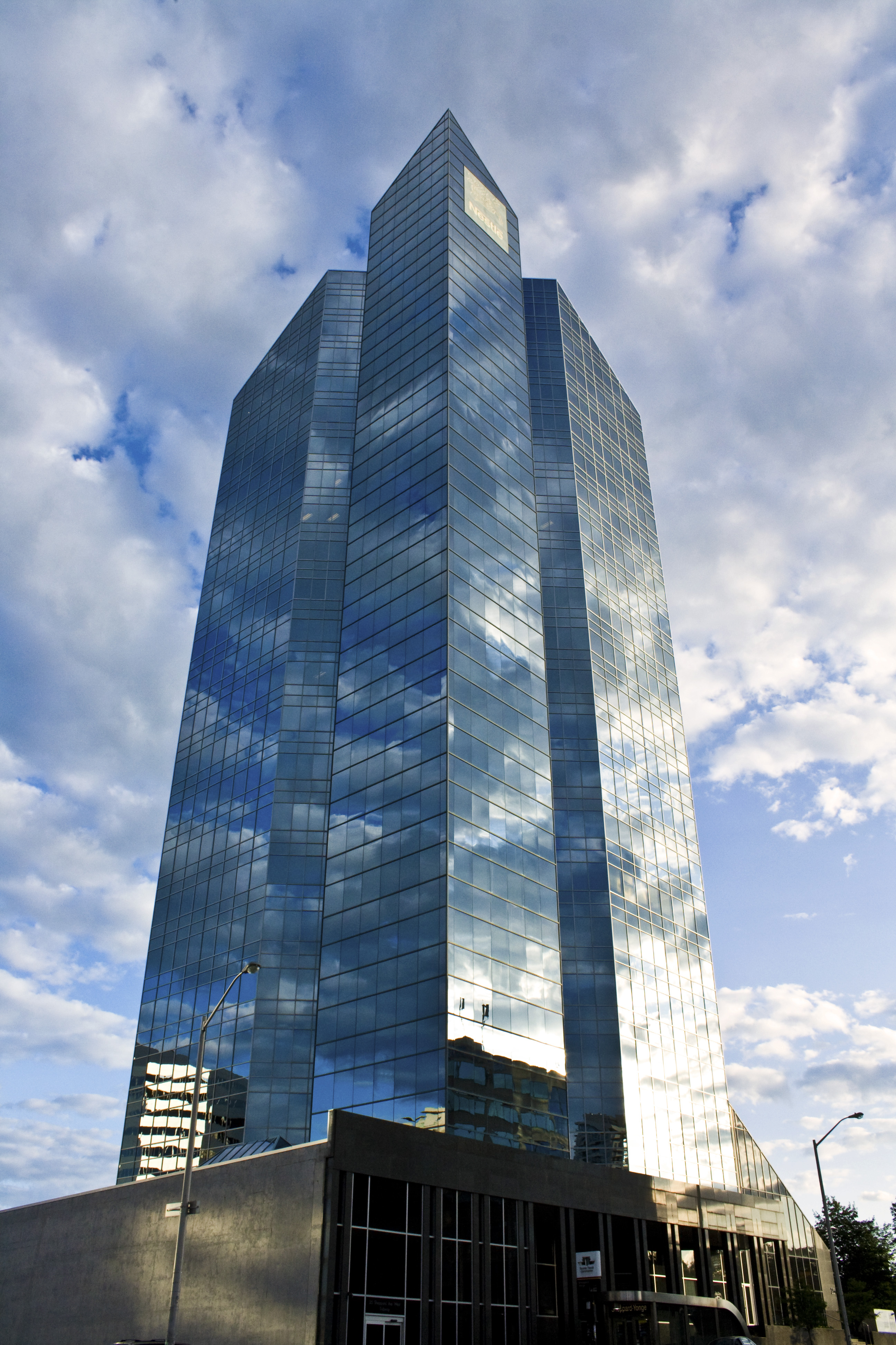 A picture of the Nestle Building at Sheppard and Yonge in Toronto, Ontario, Canada.